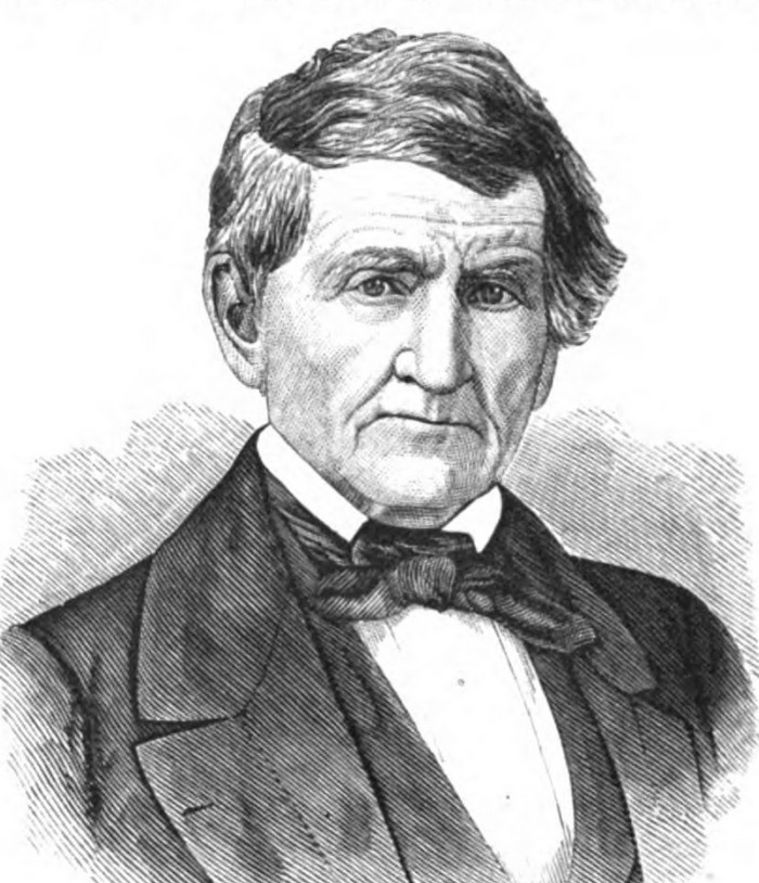 Gamaliel H. Barstow (New York Congressman)